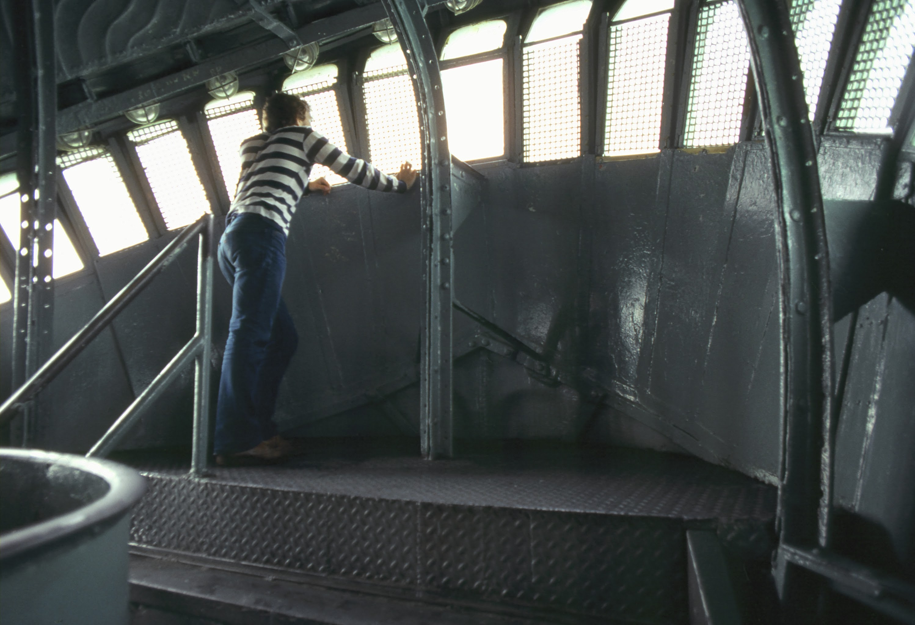 Inside the Statue of Liberty crown, 1980, by Rick Dikeman